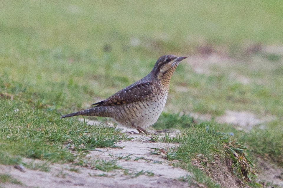 Eurasian Wryneck (Jynx torquilla) at Cuckmere Haven, Sussex, England